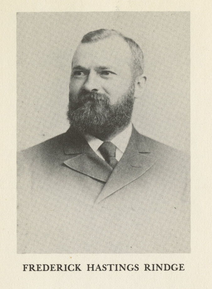 A portrait of Frederick Hastings Rindge from his book Happy Days in Southern California.